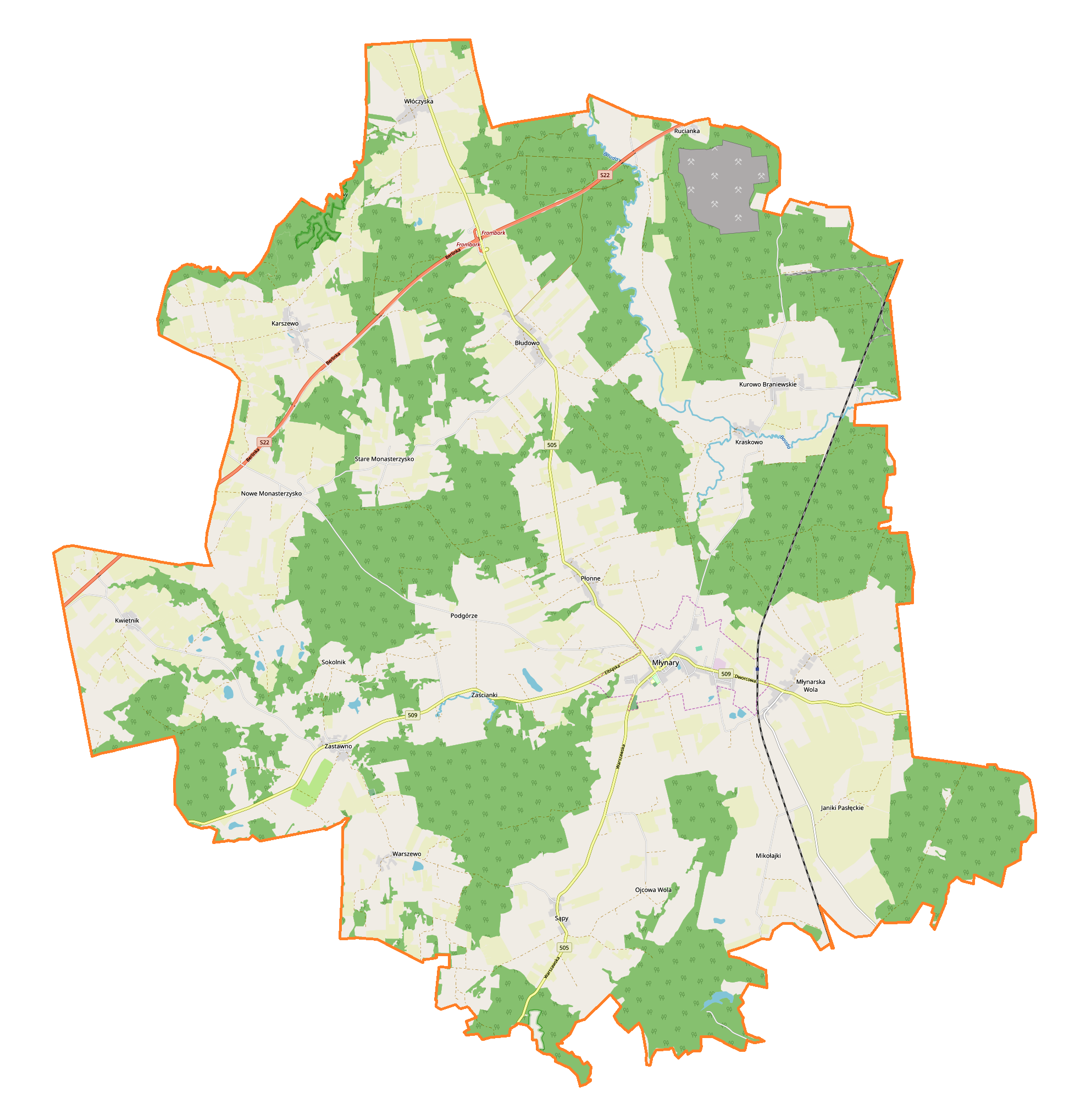 Location map